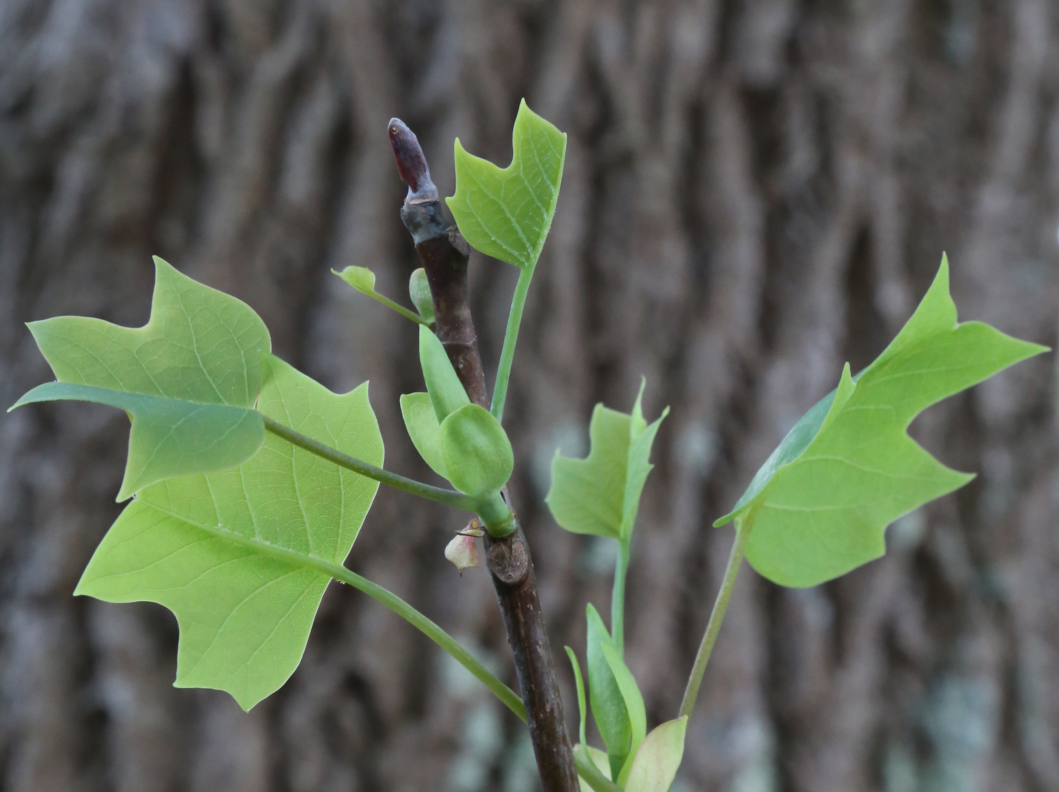 New leaves of tulip poplar tree (Liriodendron tulipifera). Not only do the leaves have a distinctive, twofold symmetrical shape, but they first emerge neatly folded in half. Here, the top leaf is still fully doubled over, the left leaf partly folded down the center, and the lower left leaf fully open but still small and light green. At center and bottom are a few remaining leaf bracts, now pink-tinged. Topping the smooth-barked twig is a reddish winter bud, and below an early, still-narrow flower bud with double bract. Duke Forest Korstian Division, Durham, North Carolina USA.